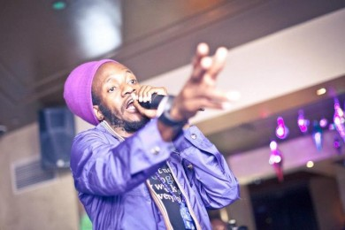 Winky D at the Africa Unplugged concert, Wembley Arena 2012, in London.